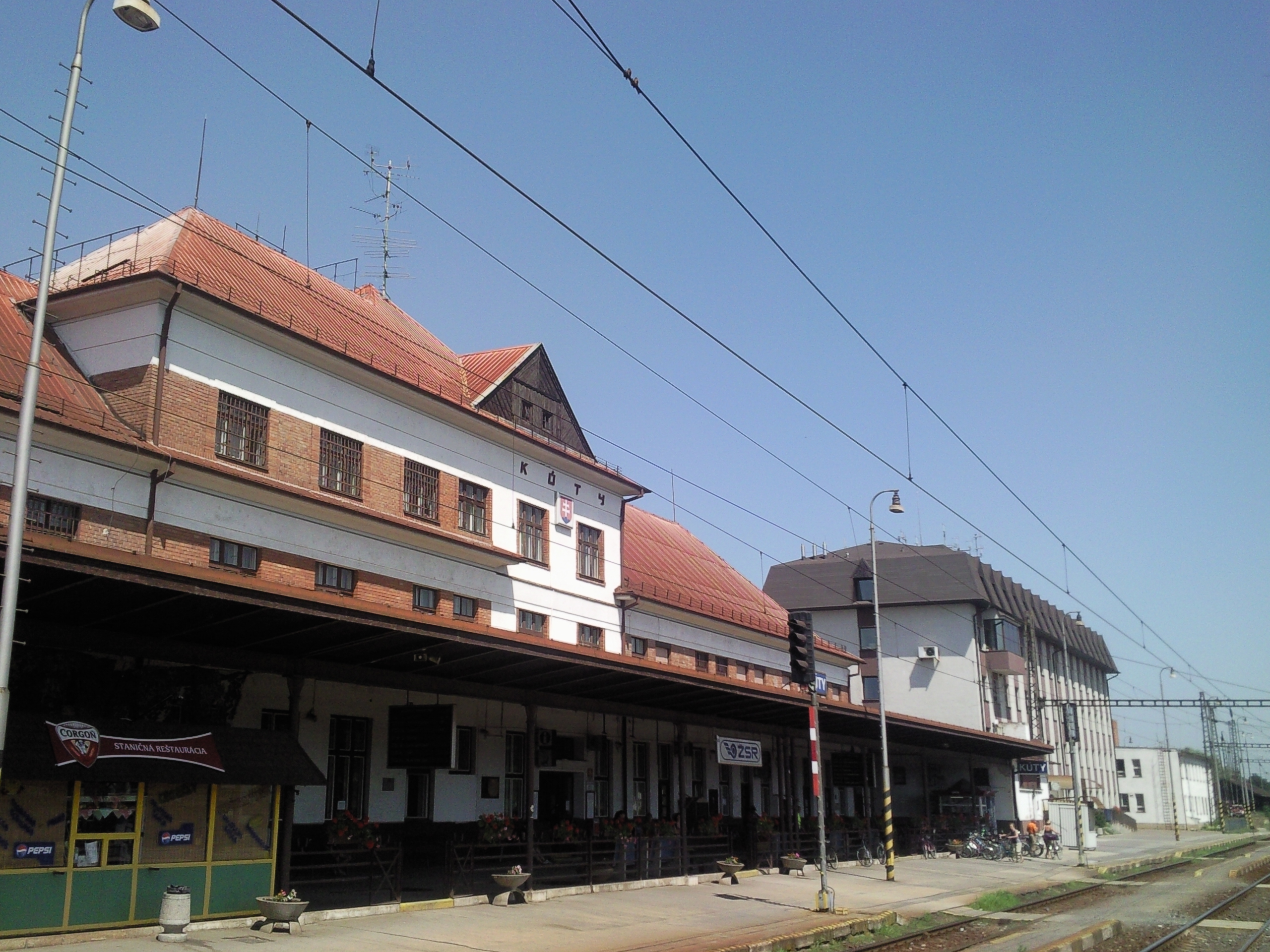 Railway station in Kúty, Slovakia